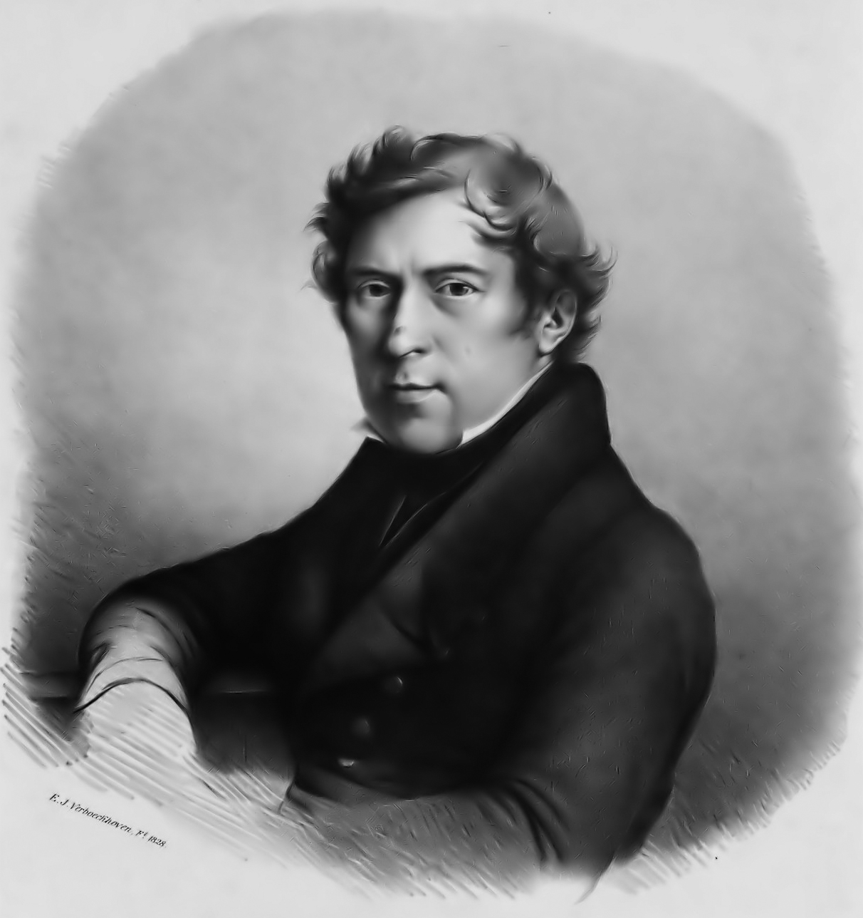 Andreas Schelfhout (1787-1870) 1828